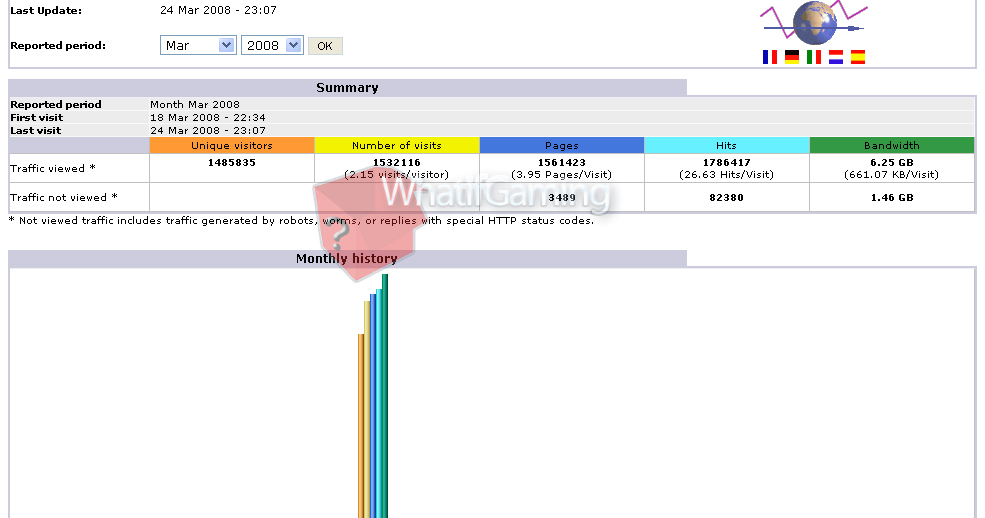 WhatIfGaming's owner only released these stats directly from their analysis manager to the public for the first time, displaying the site's immense success in a forum with WhatIfGaming readers.